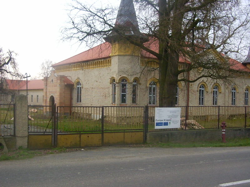 The Jankovich-Bésán castle in Gic This is a photo of a monument in Hungary, Identifier: 11424